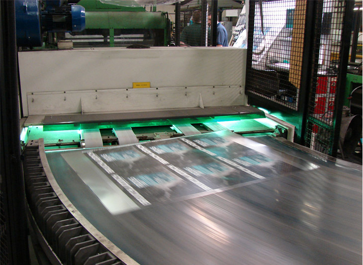 Large format sheets coated with a thin photopolymer coatings after being cured with a UV lamp.